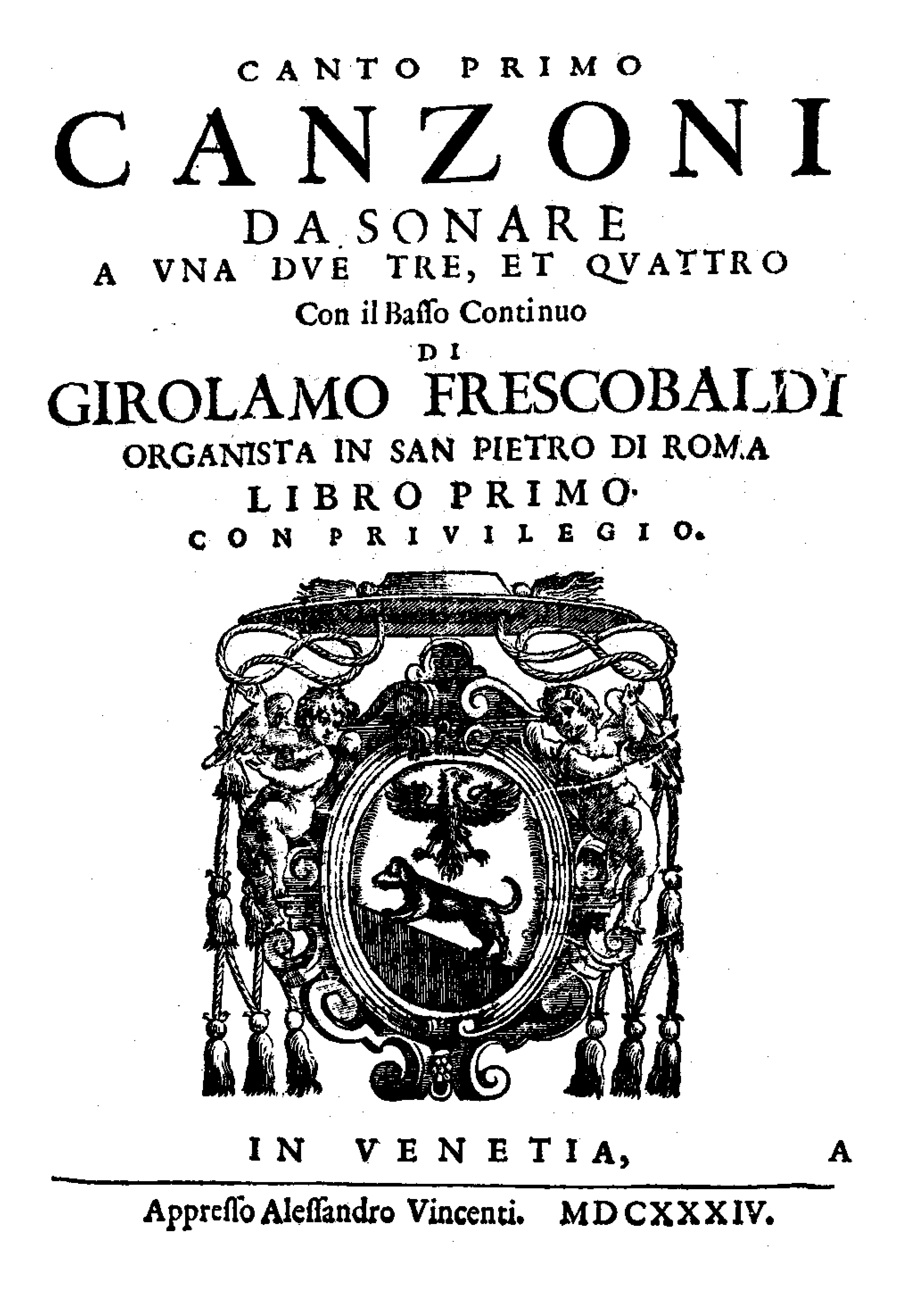 Title page of Girolamo Frescobaldi, Il Primo Libro delle Canzoni, Canto Primo part. Venice: Alessandro Vincenti, 1634